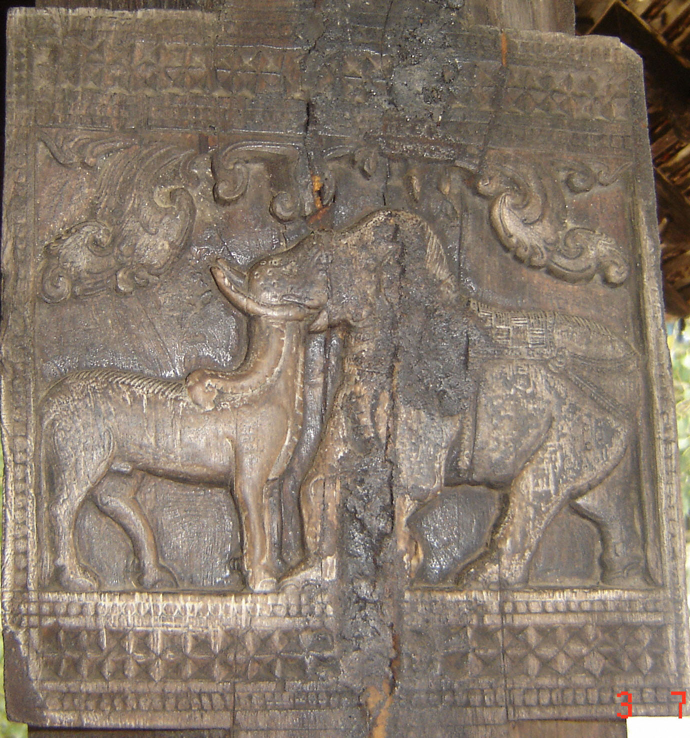 This carving shows a Bull and an Elephant. One half shows the Bull and the other shows the Elephant. This shows the skills of ancient Sinhalese. Shot by Dhammika Siripala on 03 July 2008)